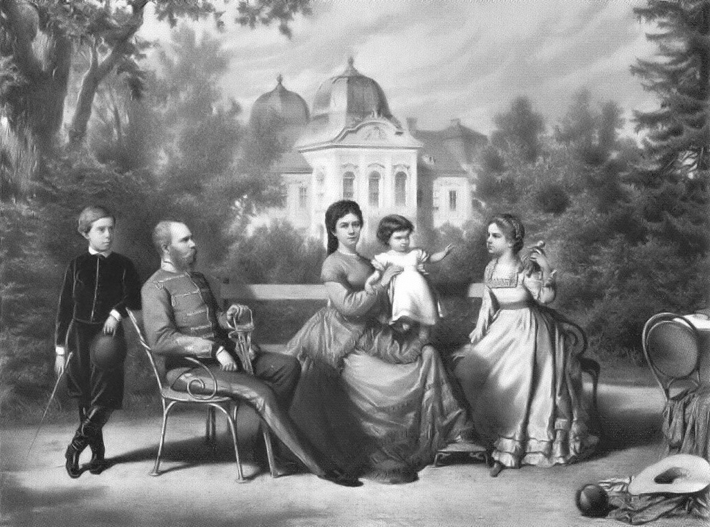 Lithography depicting the Hungarian royal family at Gödöllő Palace. King Franz Joseph and Queen Elisabeth, with their children Rudolf (* 1858); Marie Valerie (* 1868) and Gisela (* 1856).